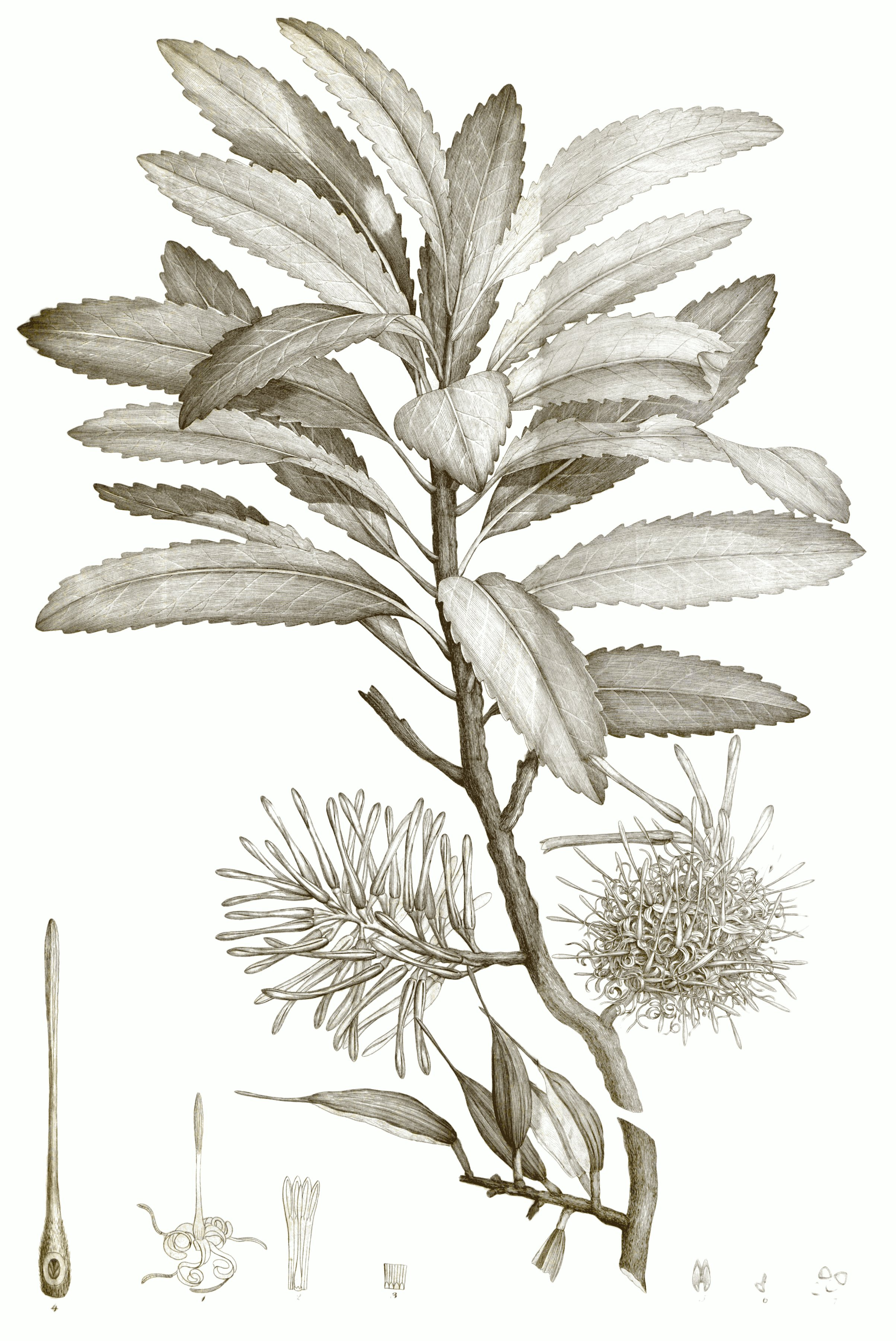 Knightia excelsa This is a page from Volume X of Transactions of the Linnean Society of London, published in 1811. The original work is in the public domain by virtue of its author having died a great many years ago. The scan is recent, but since this is a slavish copy of a two dimensional work, and since the scan was performed in the United States, it too is in the public domain.